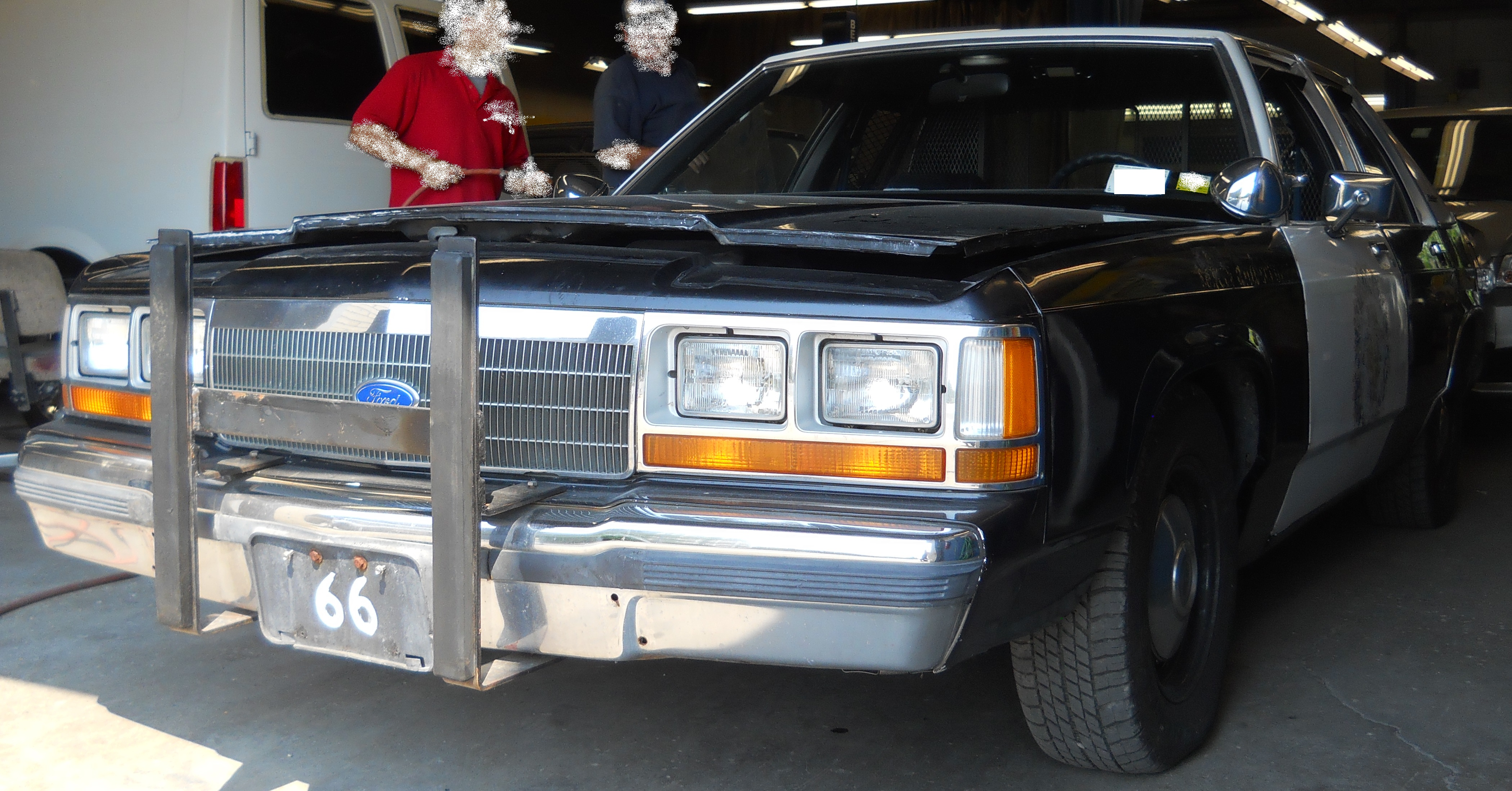 This is Blues Brothers 2000 movie car number 66. Cars used for the second movie were numbered behind the license plate in the front and back. A third number was painted inside the glove box.